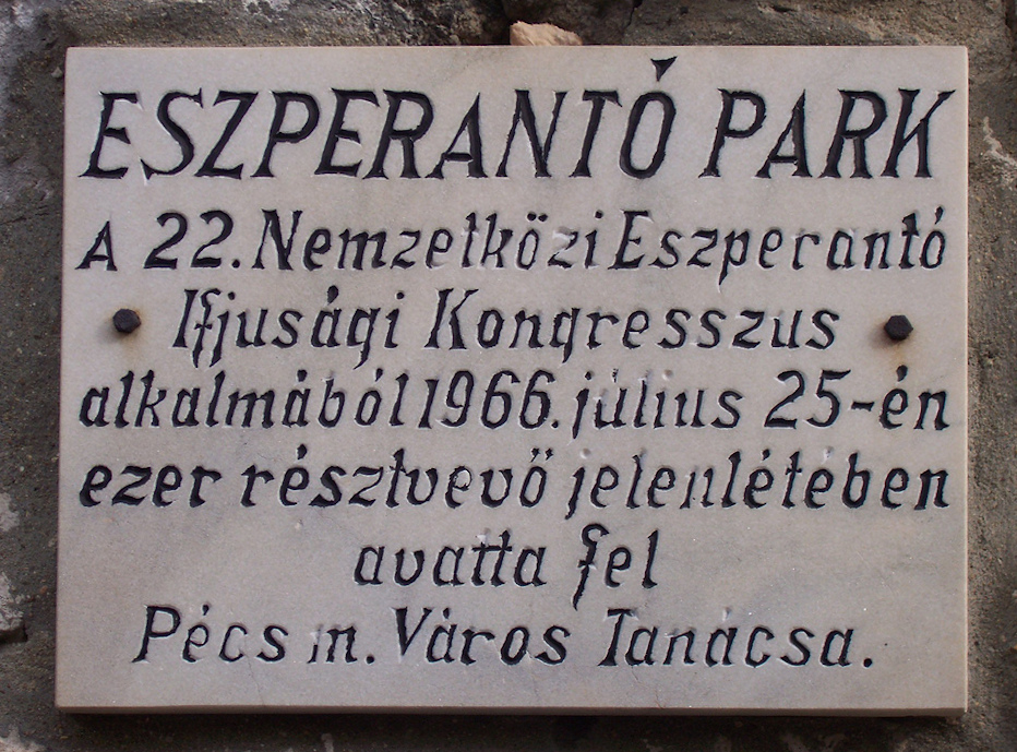 Sign at the Esperanto Park in Pécs (Hungary), set on occasion of the 22nd International Youth Congress of Esperanto in 1966Esperanto: Ŝildo ĉe la Esperanto-parko en Pécs (Hungario), metita okaze de la 22-a Internacia Junulara Kongreso en 1966A park in Pecs